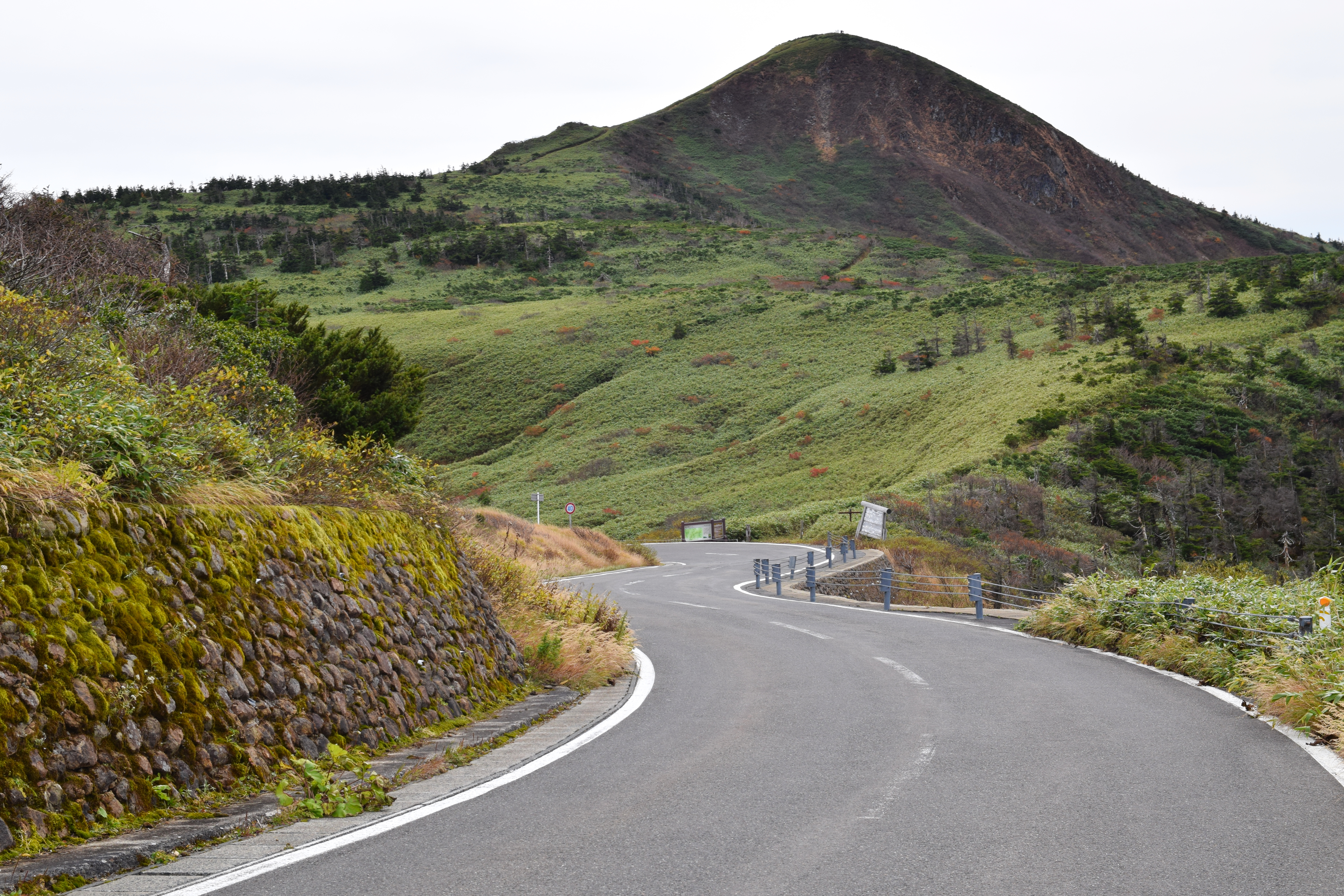 Mokkodake and Akita Prefectural and Iwate Prefectural Road Route 318.